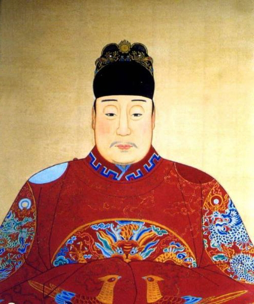 Court portrait of the Wanli Emperor, who reigned over Ming China from 1572 to 1620 AD.